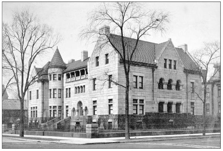 Residence of Harlow Niles Higinbotham, 2838 S. Michigan Avenue, Chicago, IL - Edward J. Burling, architect, 1884